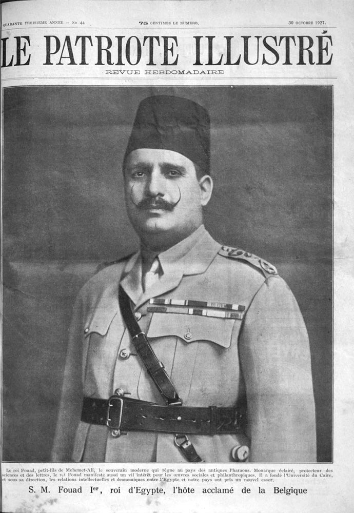 King Fouad 1, king of Egypt